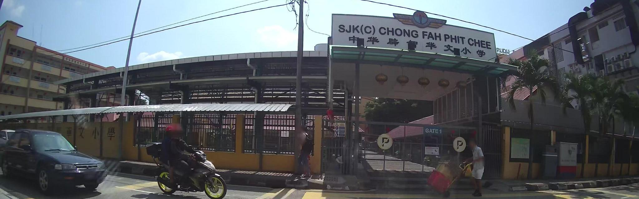 SJK (C) Chong Fah Phit Chee